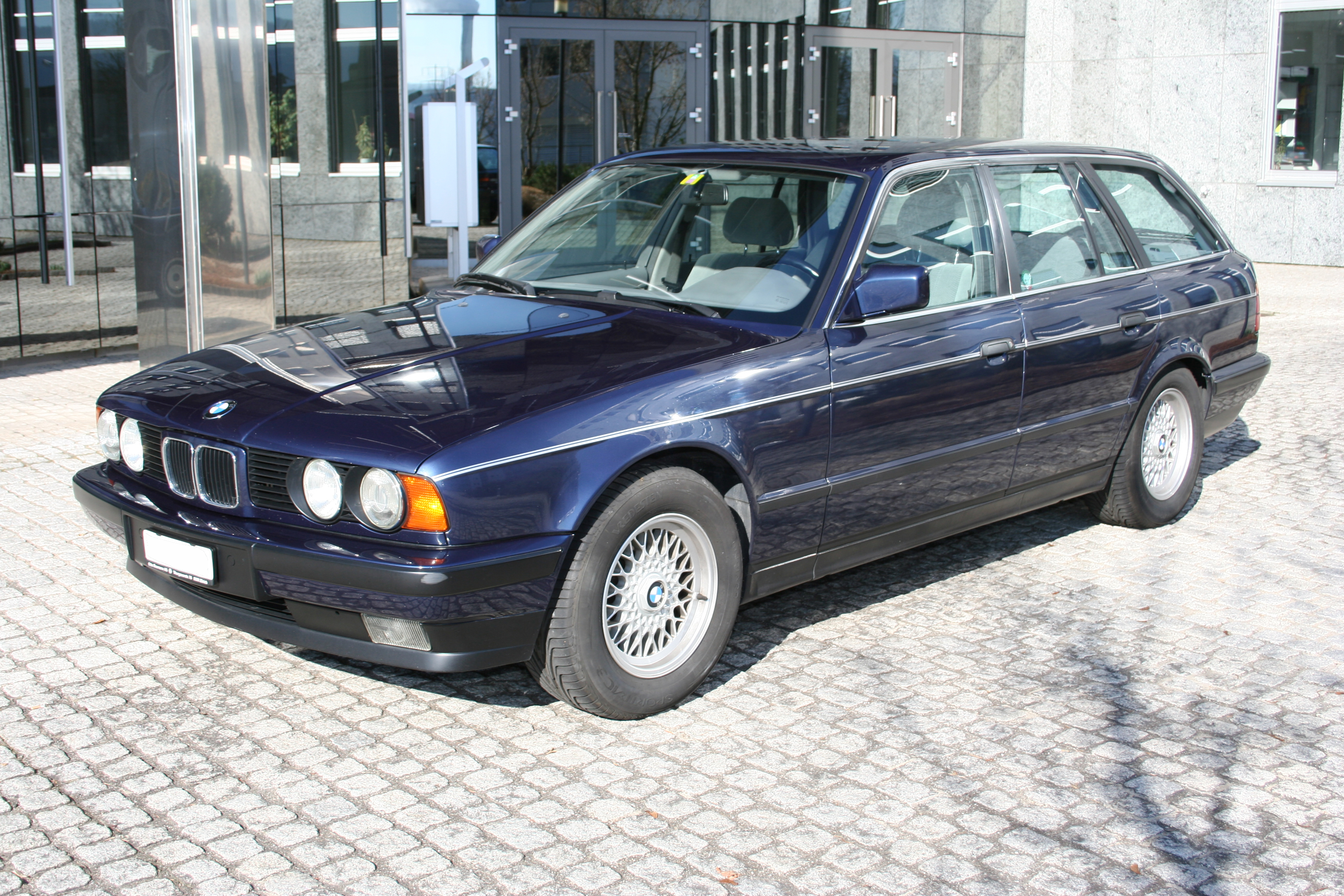 BMW E34, 525i Touring 1993